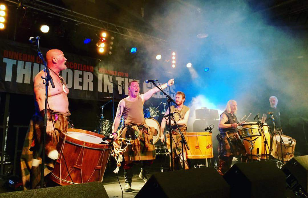 Clann An Drumma performing at Thunder in the Glens 2017 in Aviemore